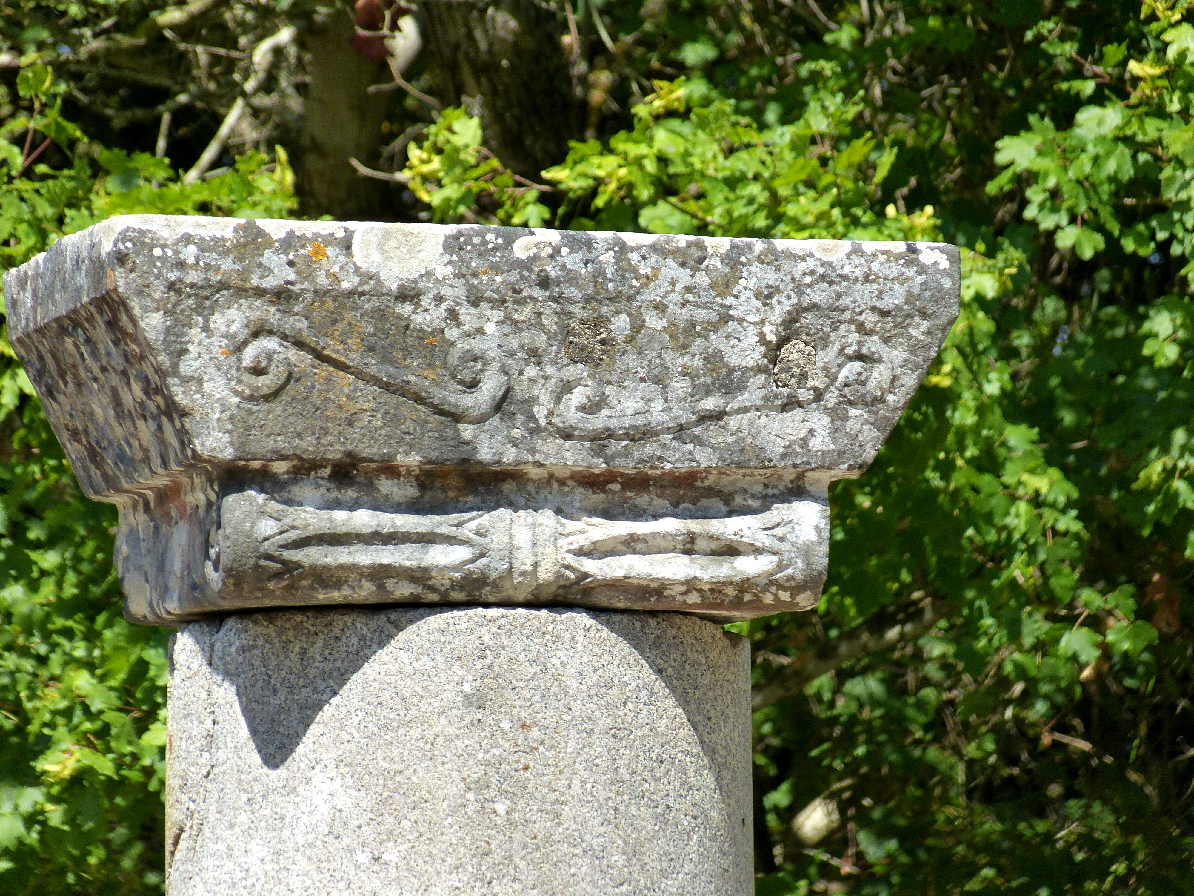 Butrint (Albania). Baptistery ( 6th century ) - Byzantine capital.